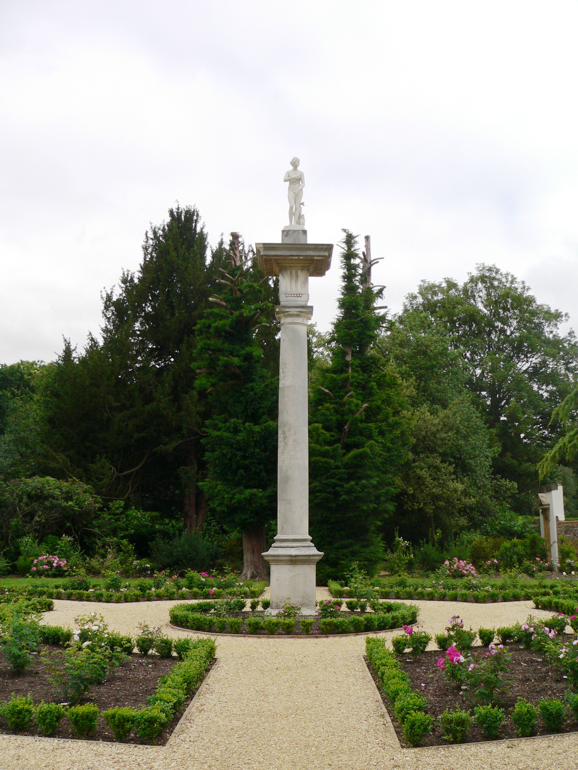 Staue of Veus de Medici on Doric column after restoration